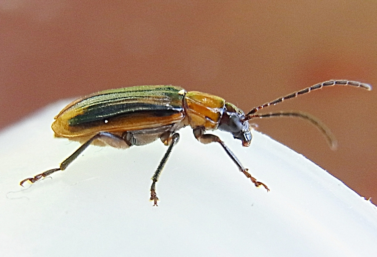 Diabrotica virgifera aus Ungarn, Somogygeszti (südlich vom Balaton, zwischen Kaposvár und Boglárlelle) an der Hauswand in einem Dorf am 29. Juli 2015